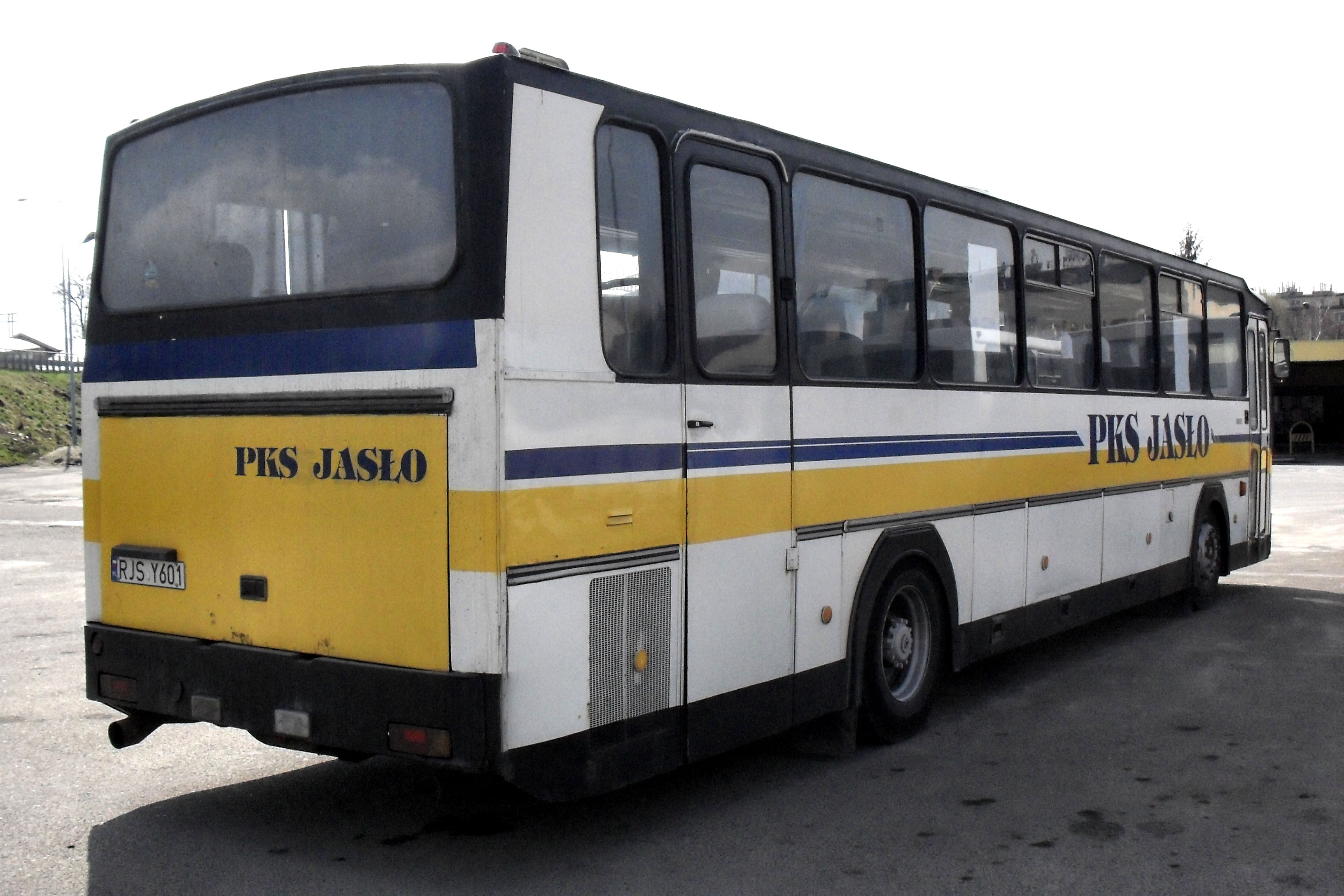 Rear view of a Jelcz T120. The bus is owned by PKS Jasło.